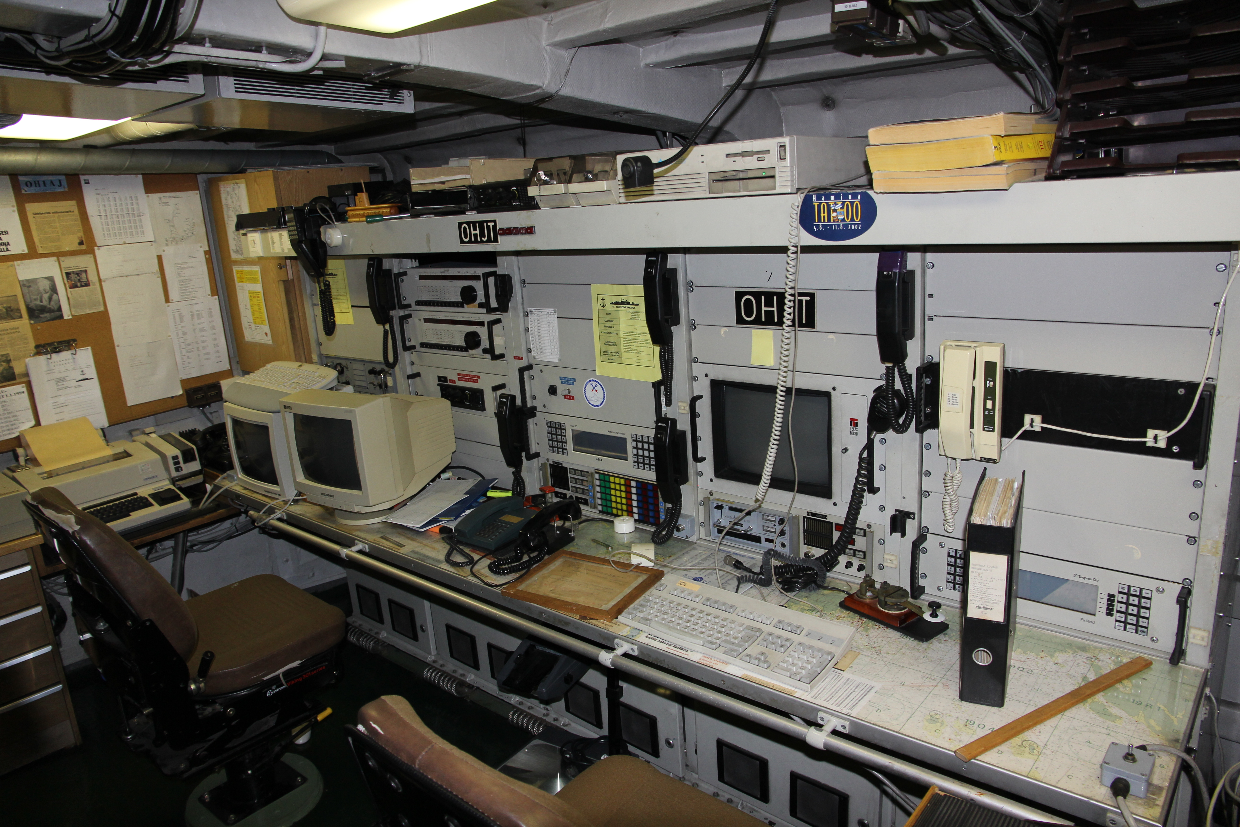 Radio room of the Finnish gunboat Karjala in Forum Marinum.